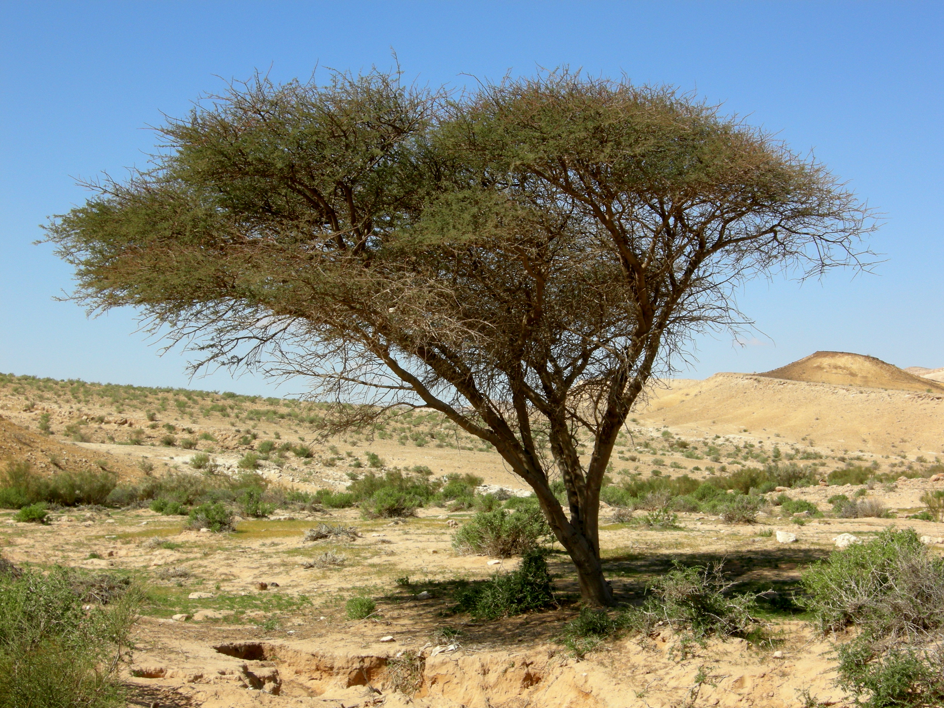 Acacia tree in Makhtesh Gadol, Negev Desert, Israel